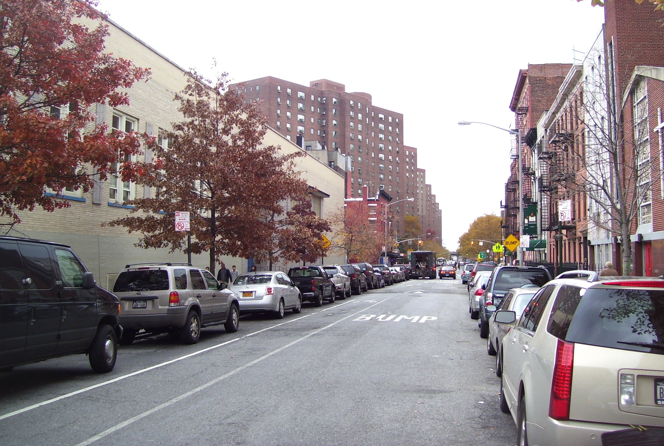 View on East 20th Street between First and Second Avenues in the Gramercy Park neighborhood of Manhattan, New York City, looking east towards First Avenue and the Peter Cooper Village housing development. (Compare with File:East 20th St northside towards 1st Ave 1938.jpg) On the left is the Simon Baruch Middle School (IS104), built in 1954.